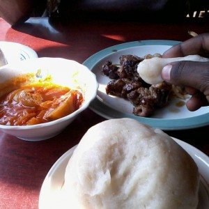 The Burundians like hot and spicy food and use various flavoring agents in their dishes. The locally available food items are utilized in the preparation of food. The beverages are mostly home made. This is an image of food from Burundi